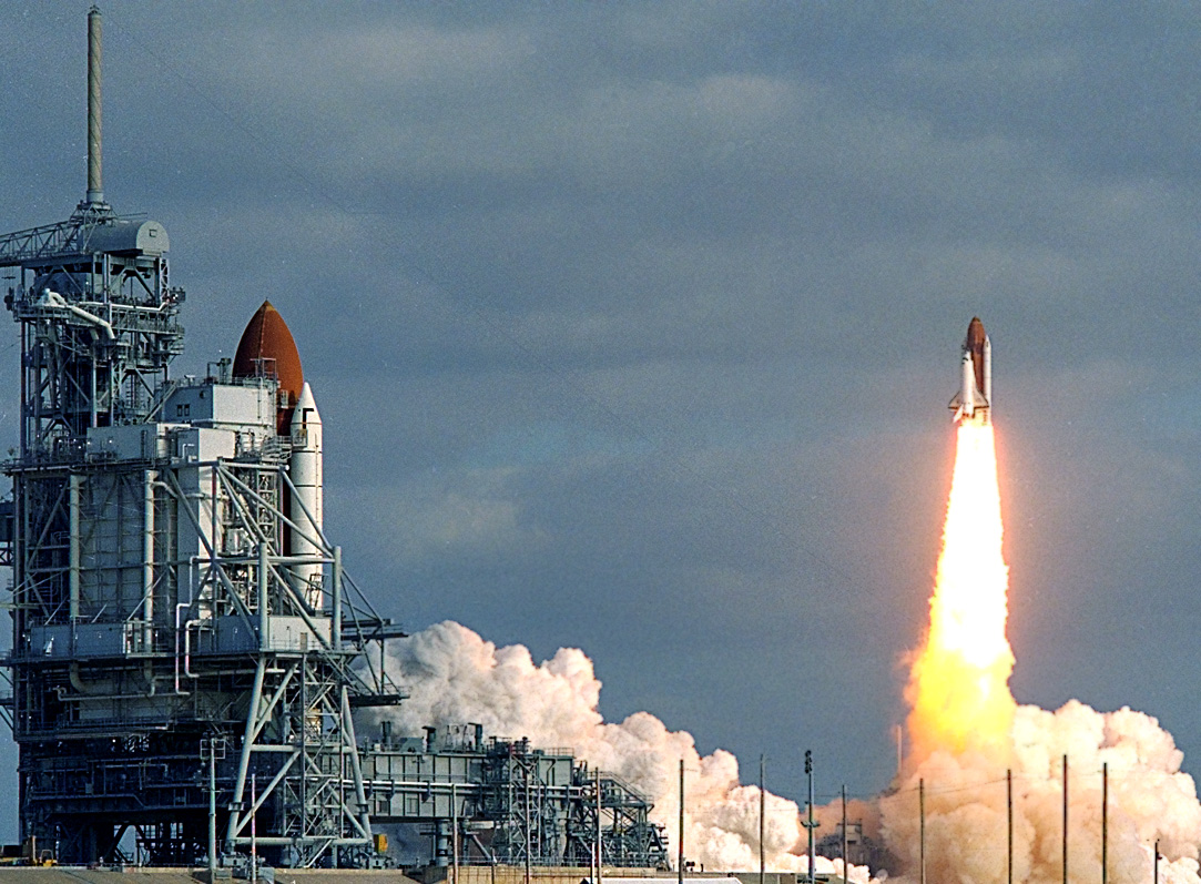 The Space Shuttle Columbia on Pad 39A during the picture-perfect ascent of sister ship Discovery after lift off of STS-31. This was the first time since January 1986 that there was a Shuttle on each pad, which are separated by 1.6 miles. Discovery, carrying a five-member crew and the Hubble Space Telescope, lifted off at 8:34 a.m. EDT, April 24. Columbia, with its Astro-1 observatory, is scheduled for launch in May. An edit of Image:STS31 carries Hubble to orbit.jpg: crop, selective contrast, dust/scratch removal, selective noise reduction